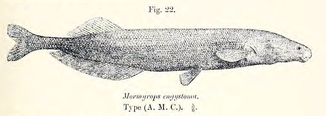 Mormyrops engystoma Boulenger, 1898